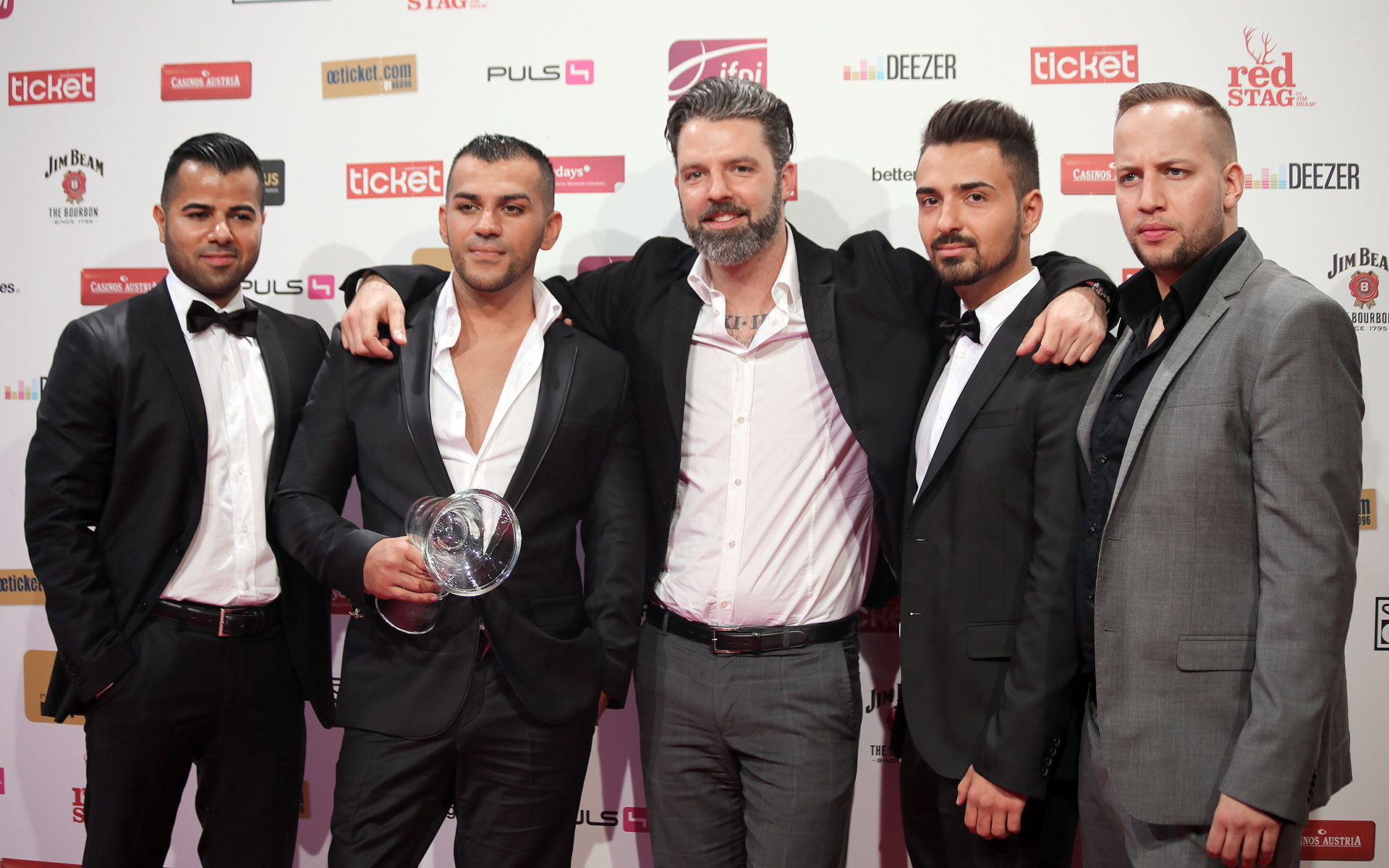 Nazar (with trophy) at the Amadeus Austrian Music Award at Volkstheater in Vienna